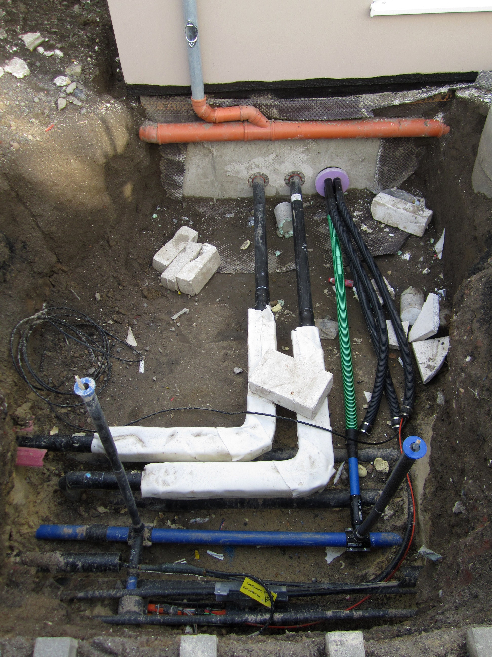 House connection to district heat, water, electricity, telecommunication and FTTH.